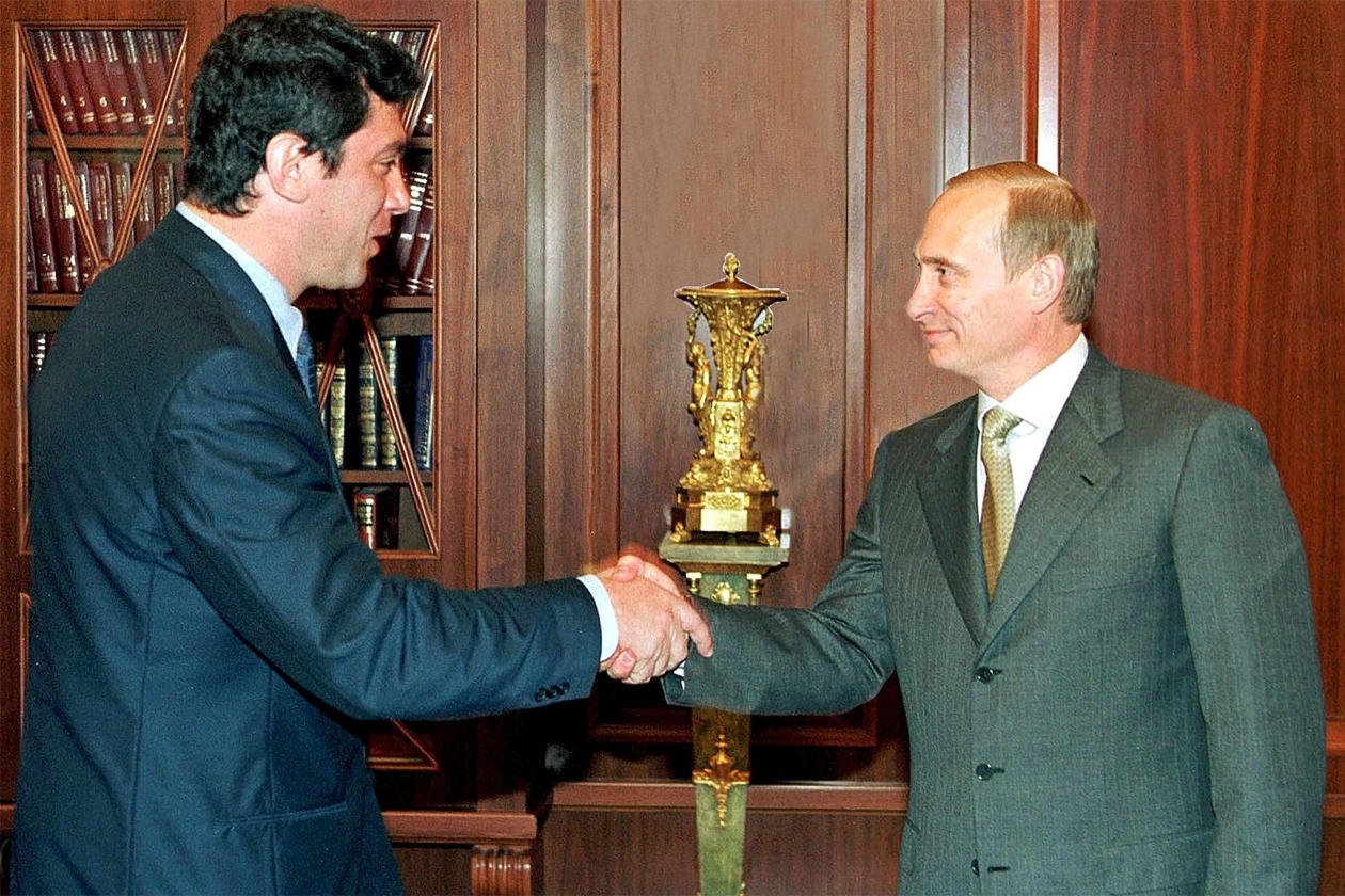 THE KREMLIN, MOSCOW. Vladimir Putin with Boris Nemtsov, leader of the Union of Right Forces parliamentary party.